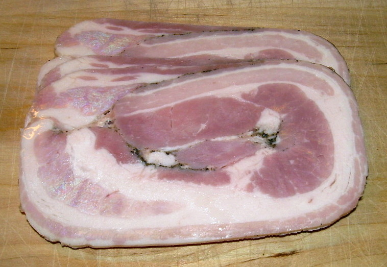 Photo of sliced meat, danish "rullepølse" (rolled sausage)